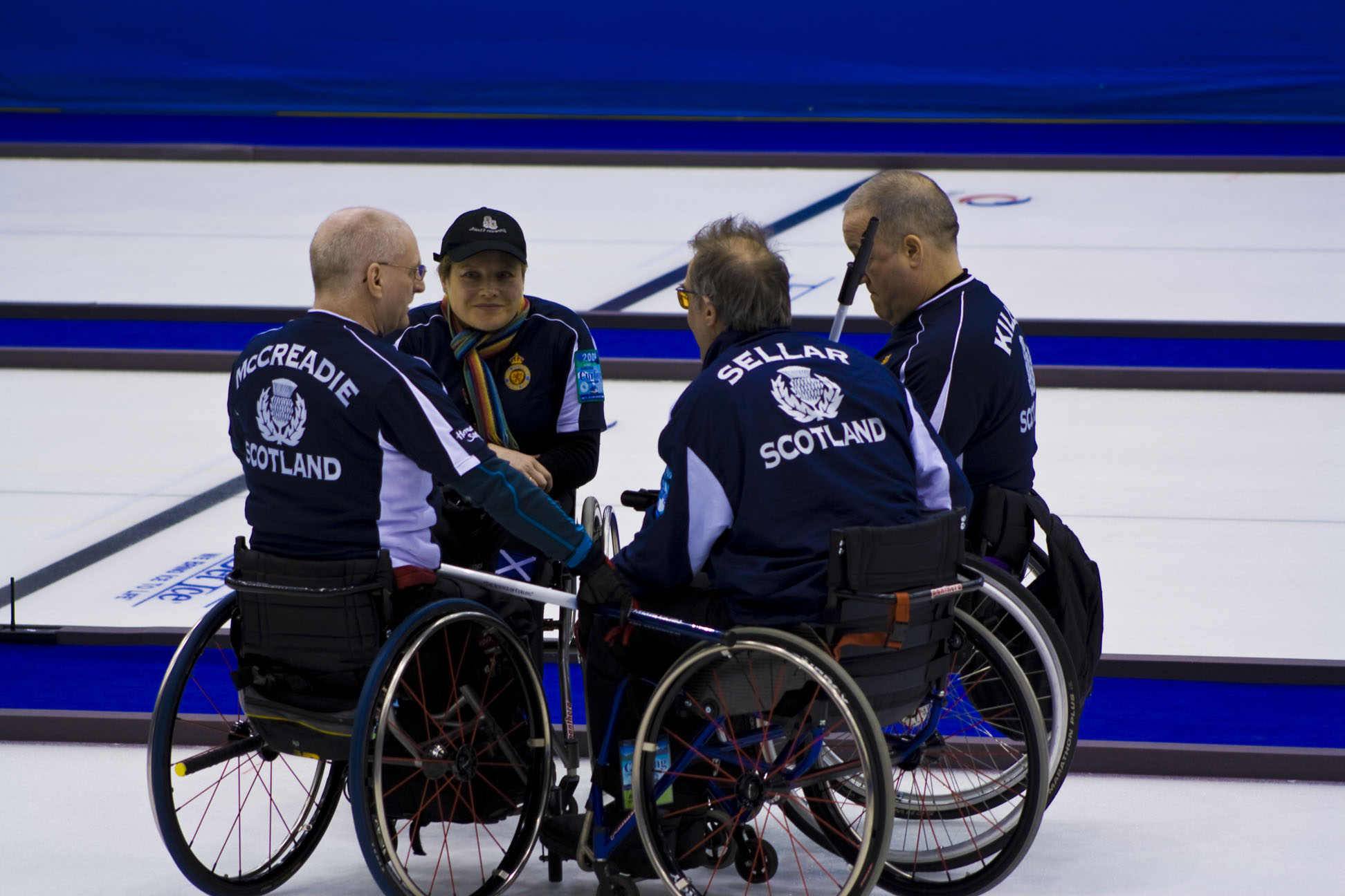 Team Scotland - Aileen Neilson (2nd from left)